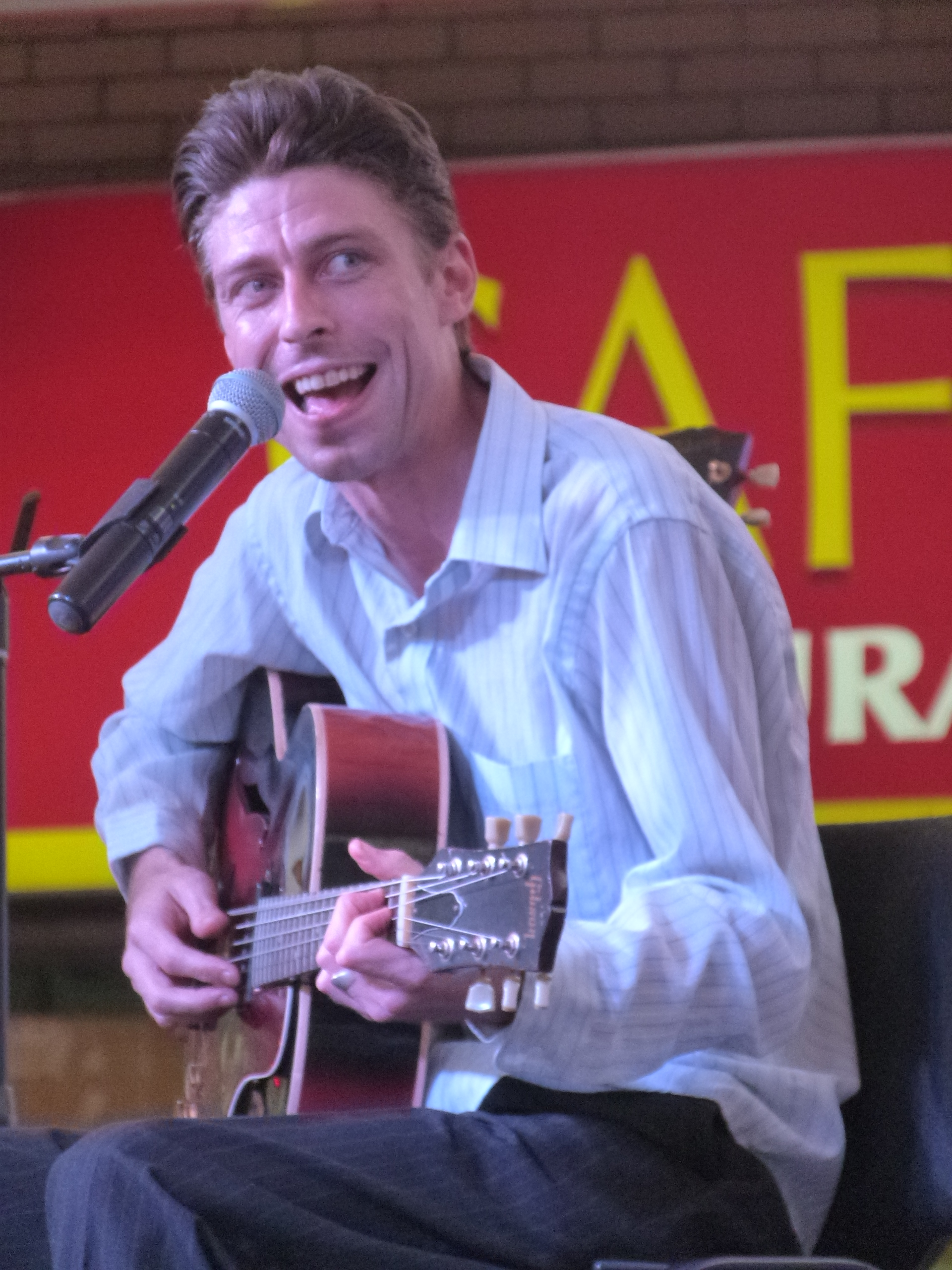 Little Joe McLerran performing on stage in Palmira, Colombia